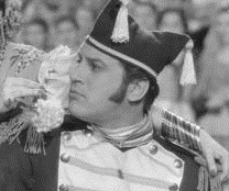 Carlos Tajes